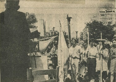 Michael Schwartz (center) at GWC rally on 6/6/1970